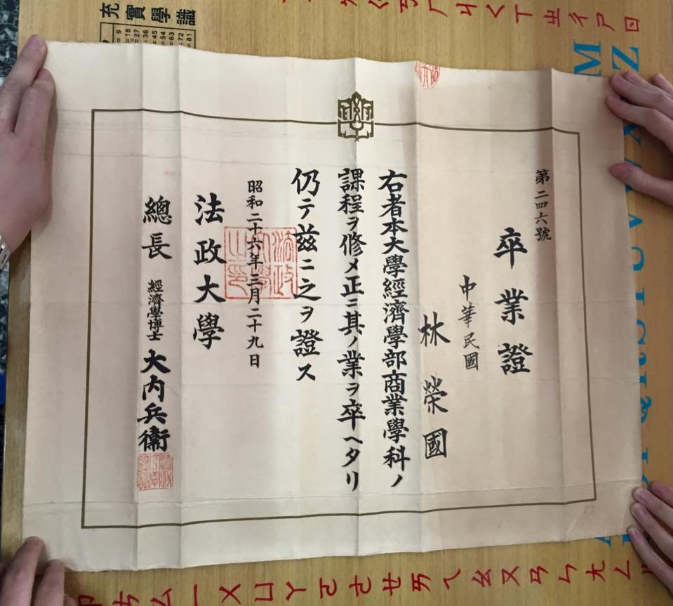 Grandpa's diploma in Japan, 1951-3-26